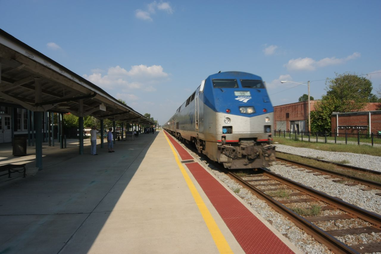 Amtrak train #89 on the Palmetto route comes into the Wilson, North Carolina station.